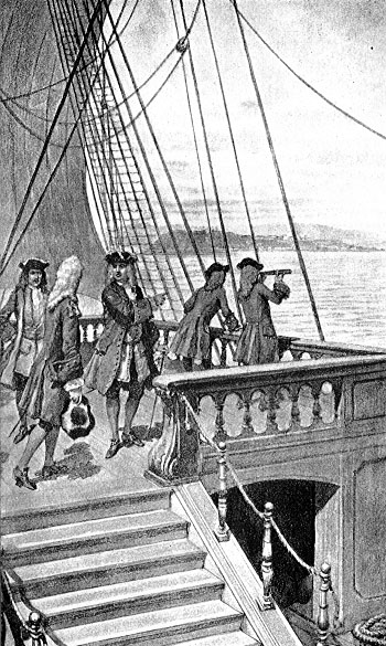 Image from Canadawiki. Assumed to be old art.